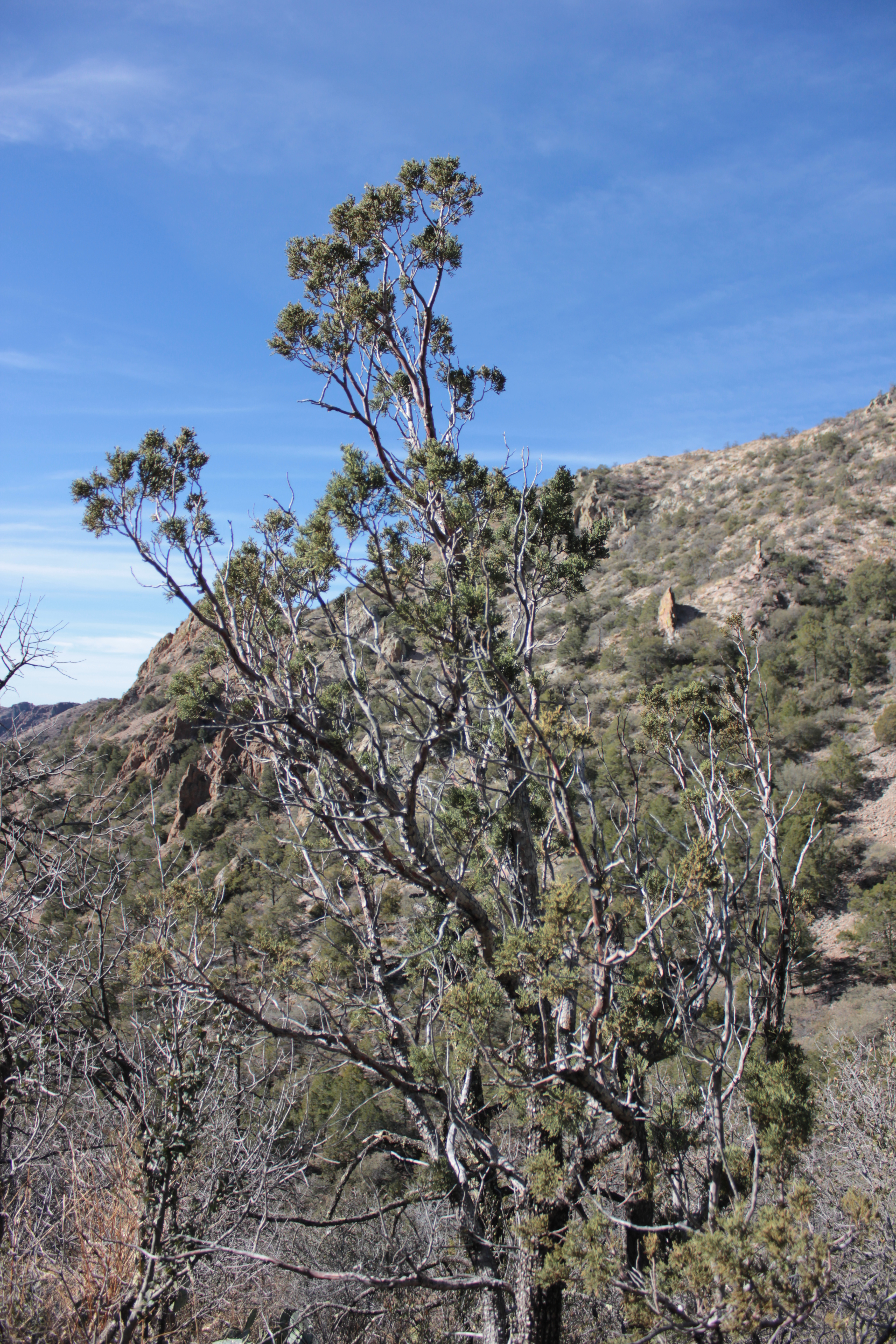 Juniperus deppeana, Big Bend National Park, Texas